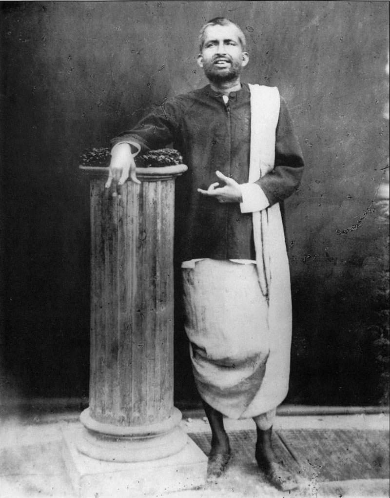 Photograph of Ramakrishna, taken on 10 December 1881 at the studio of The Bengal Photographers in Radhabazar, Calcutta, India.